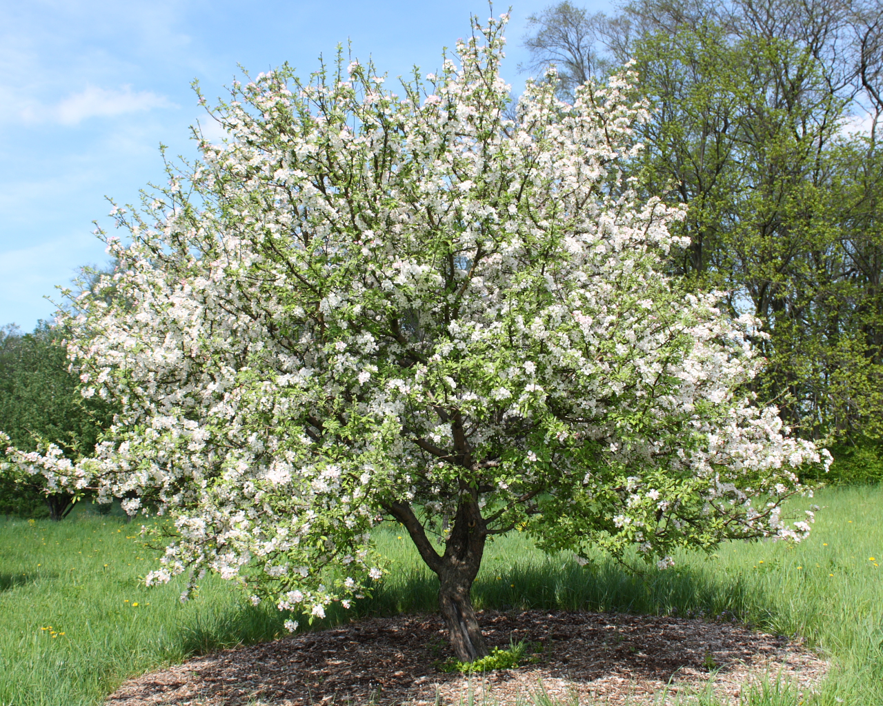 Plum-leaved crabapple, Malus prunifolia. Morton Arboretum acc. 246-88*1.